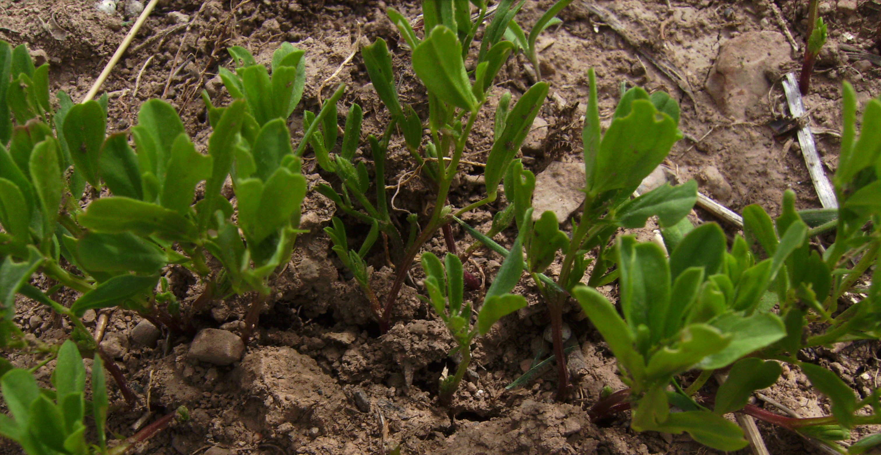 Young lentil plants (Lens culinaris), Castelltallat, Catalonia